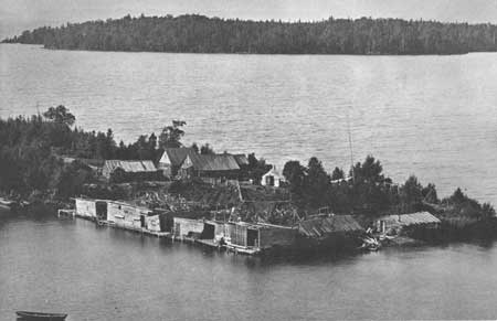 Barnum Island, near Isle Royale, showing Johns Hotel complex